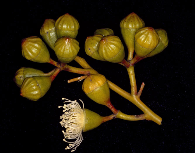 Flower buds of Eucalyptus canescens subsp. beadellii north of Cook, in the Great Victoria Desert, South Australia